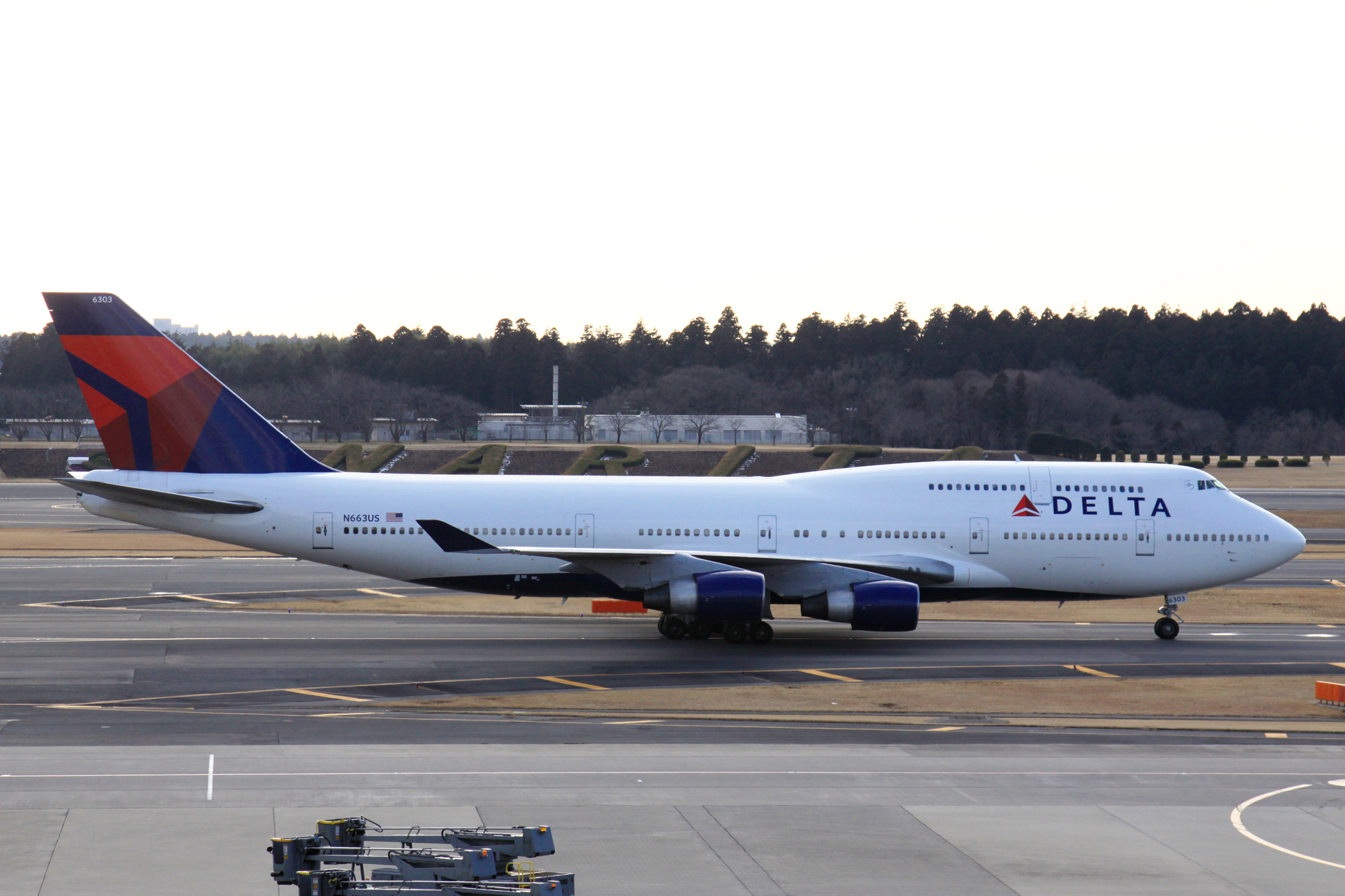 Narita International Airport, Boeing 747-451, c/n:23818, Delta Airlines